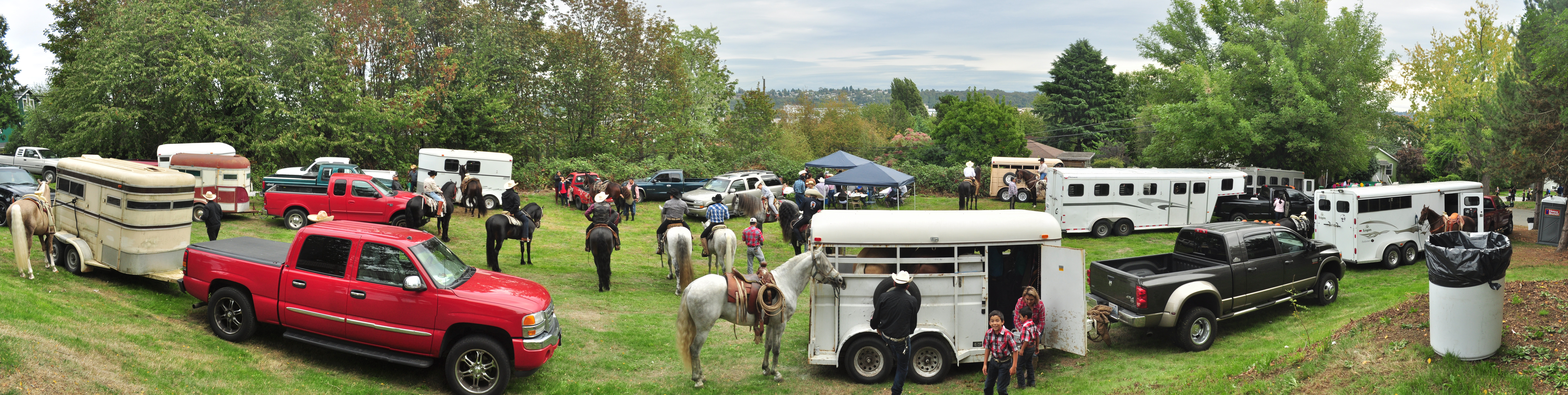 Panoramic view: preparing the horses before the Fiestas Patrias Parade, South Park, Seattle, Washington, 2015. This image was created with Hugin